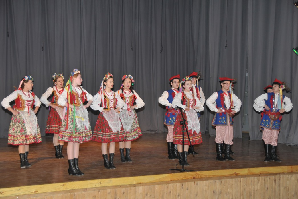 Krakowiak w wykonaniu ZPiTL Dzieci Podlasia